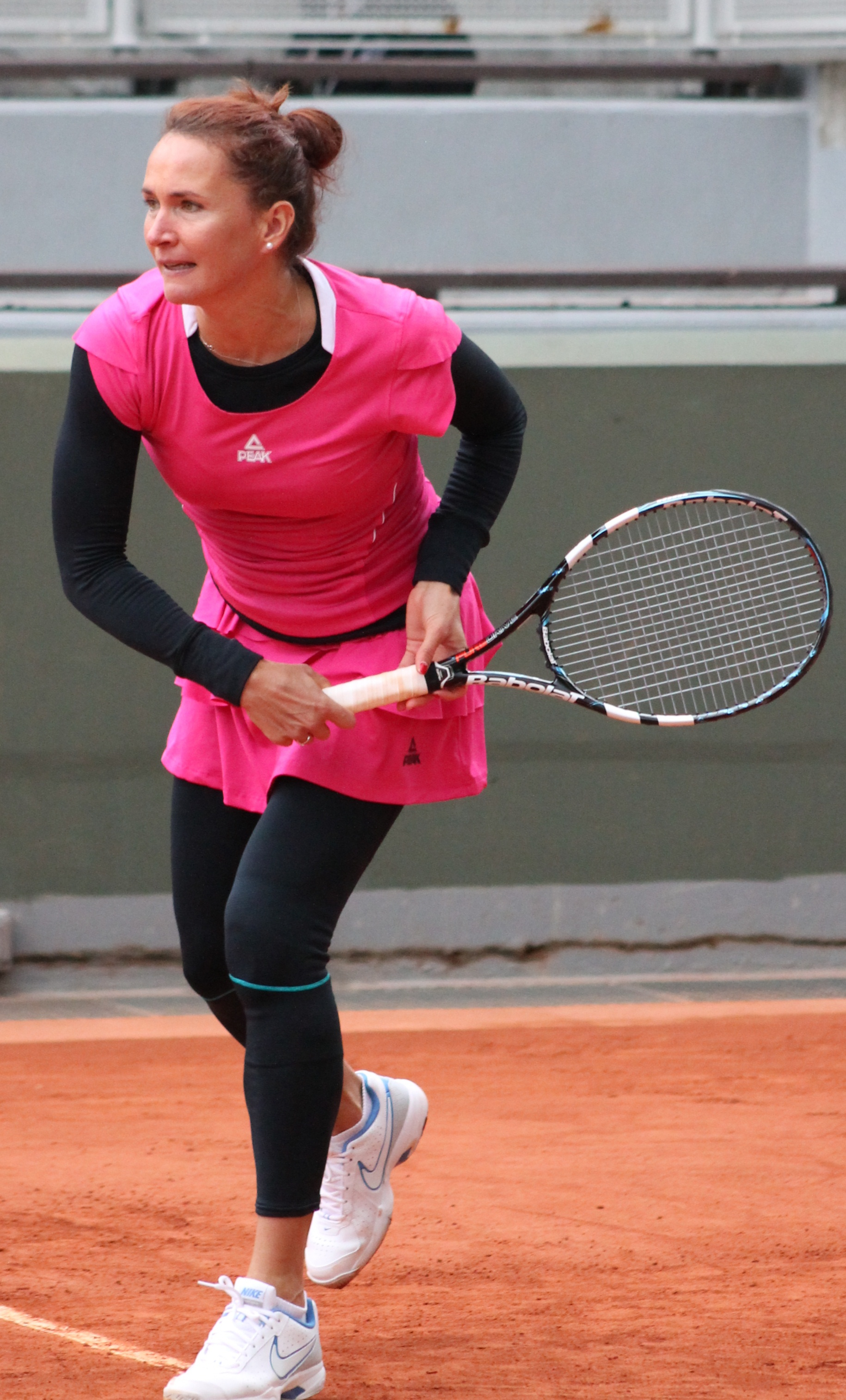 Katalin Marosi playing at Roland Garros 2013